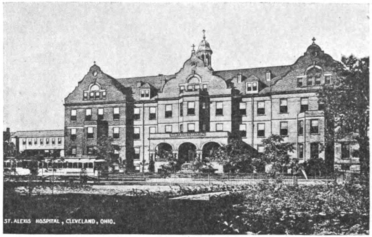 St. Alexis Hospital at 5163 Broadway Avenue in Cleveland, Ohio, in the United States about 1918. The first hospital building was erected in 1884. St. Alexis was only the second Catholic hospital in Cleveland. Construction on a 32-bed acute-care hospital began in 1885. The world's first human-to-human blood transfusion occurred at St. Alexis in 1906. The hospital closed on December 19, 2003 and razed in 2007.